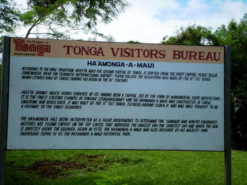 Ha'amonga 'a Maui